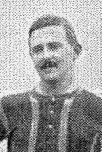 John Montgomery - Taken from a postcard by Wakefields produced in 1907.